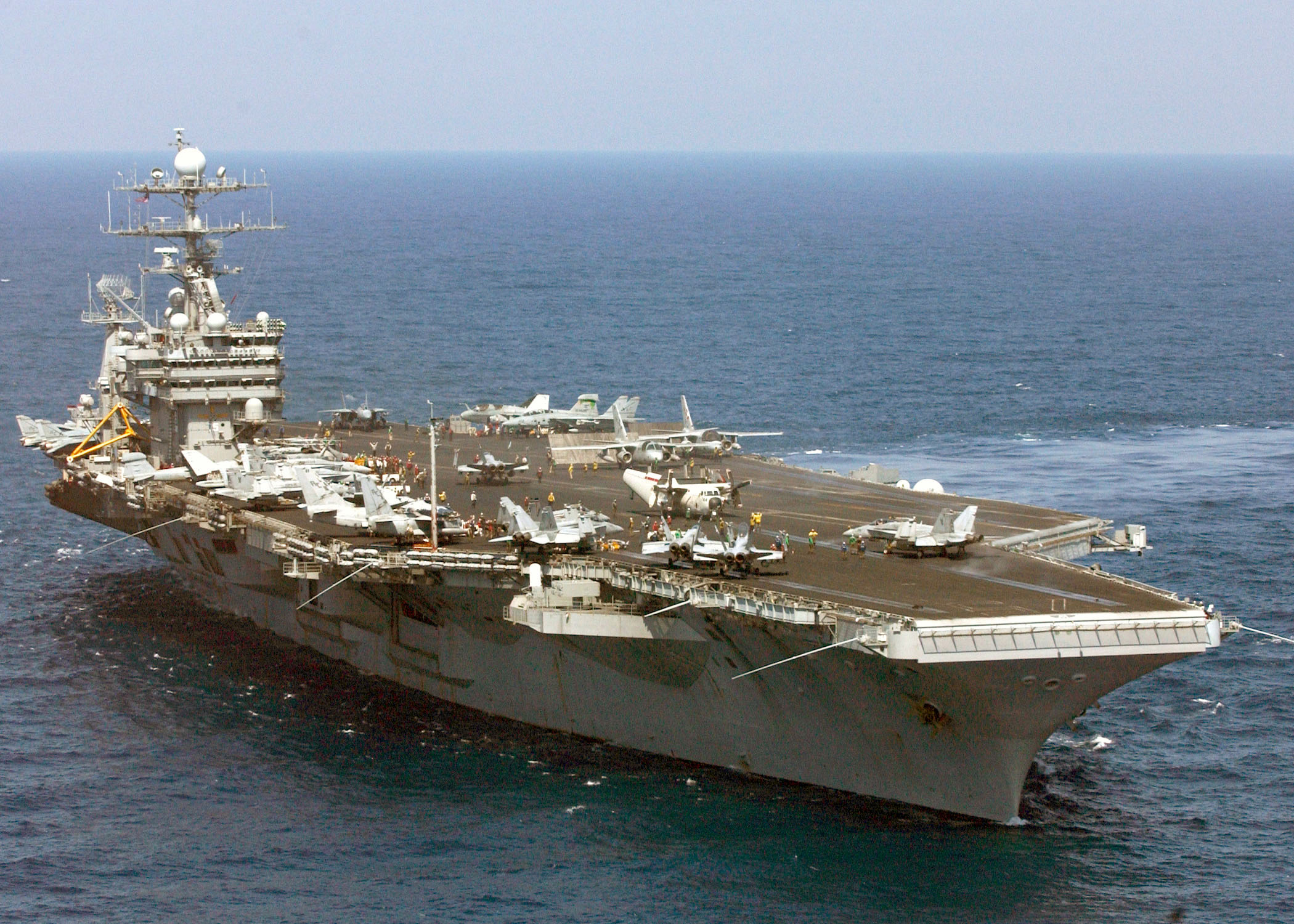 The Mediterranean Sea (Mar. 31, 2003) -- USS Harry S. Truman (CVN 75) prepares to engage in flight operations in support of Operation Iraqi Freedom. Operation Iraqi Freedom is the multinational coalition effort to liberate the Iraqi people, eliminate Iraq's weapons of mass destruction and end the regime of Saddam Hussein. U.S. Navy photo by Photographer's Mate 1st Class Michael W. Pendergrass (RELEASED)